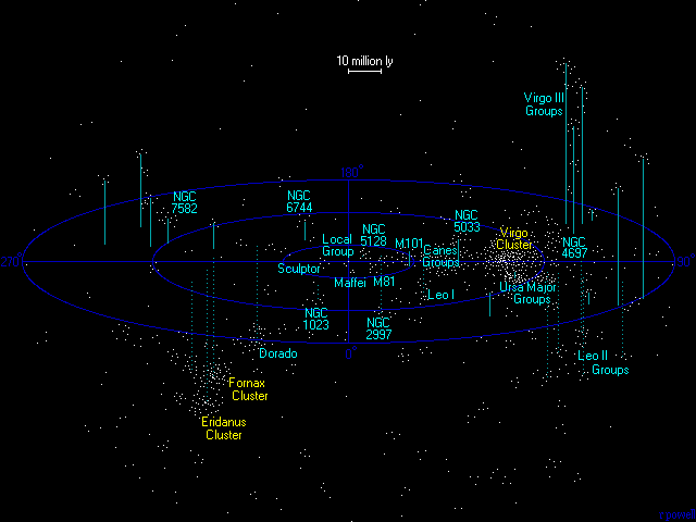 The Universe within 100 million Light Years The Virgo Supercluster